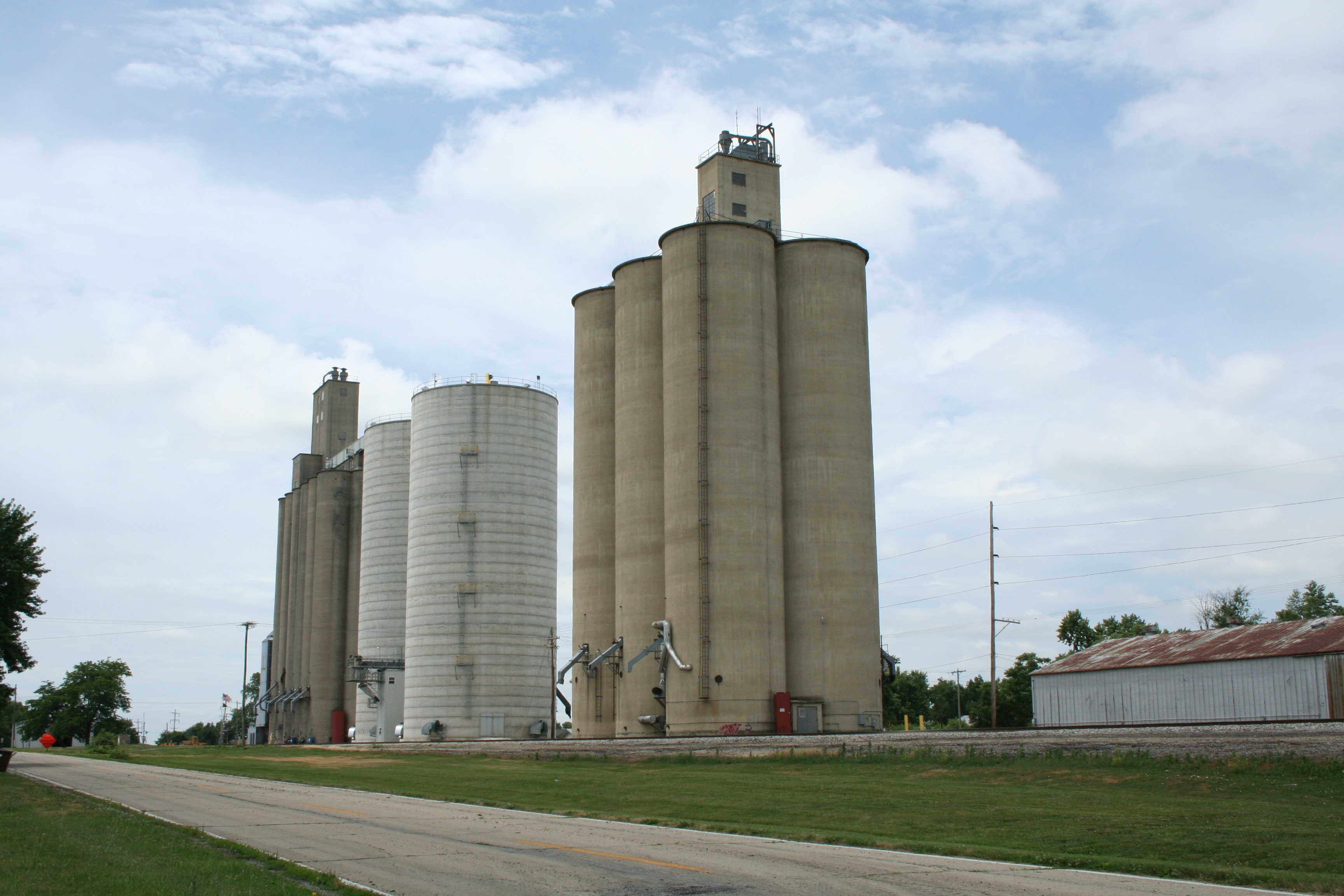 Ludlow_Illinois_grain_elevators